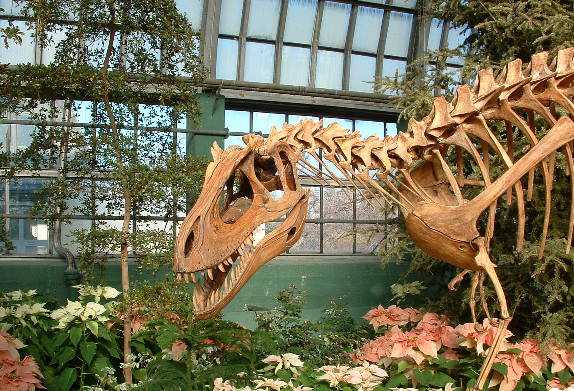 Dinosaur in the Plants - Garfield Park Conservatory